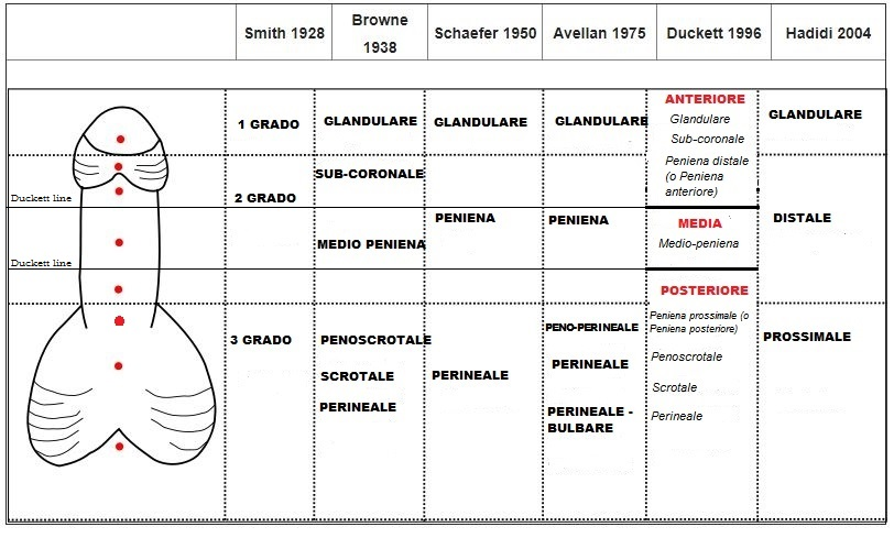 Classification of hypospadias in italian language by various authors